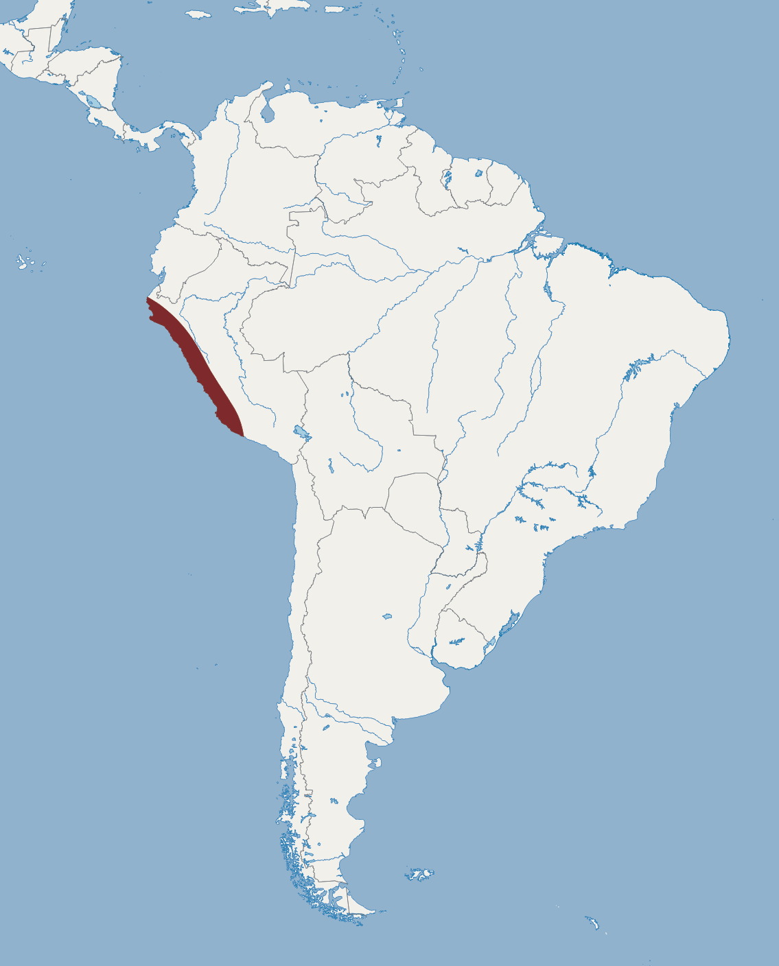 Distribution of tomopeas ravus according to IUCN Redlist